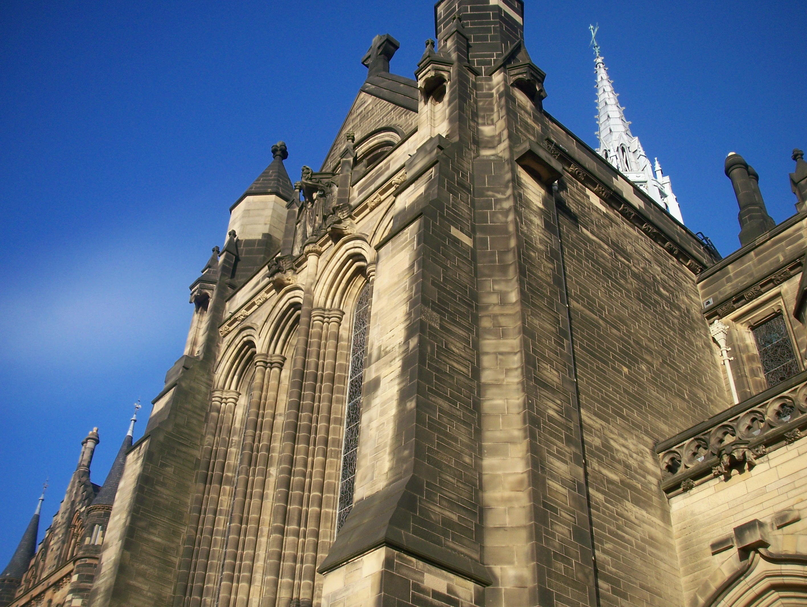 University of Glasgow Memorial Chapel, taken from The Square